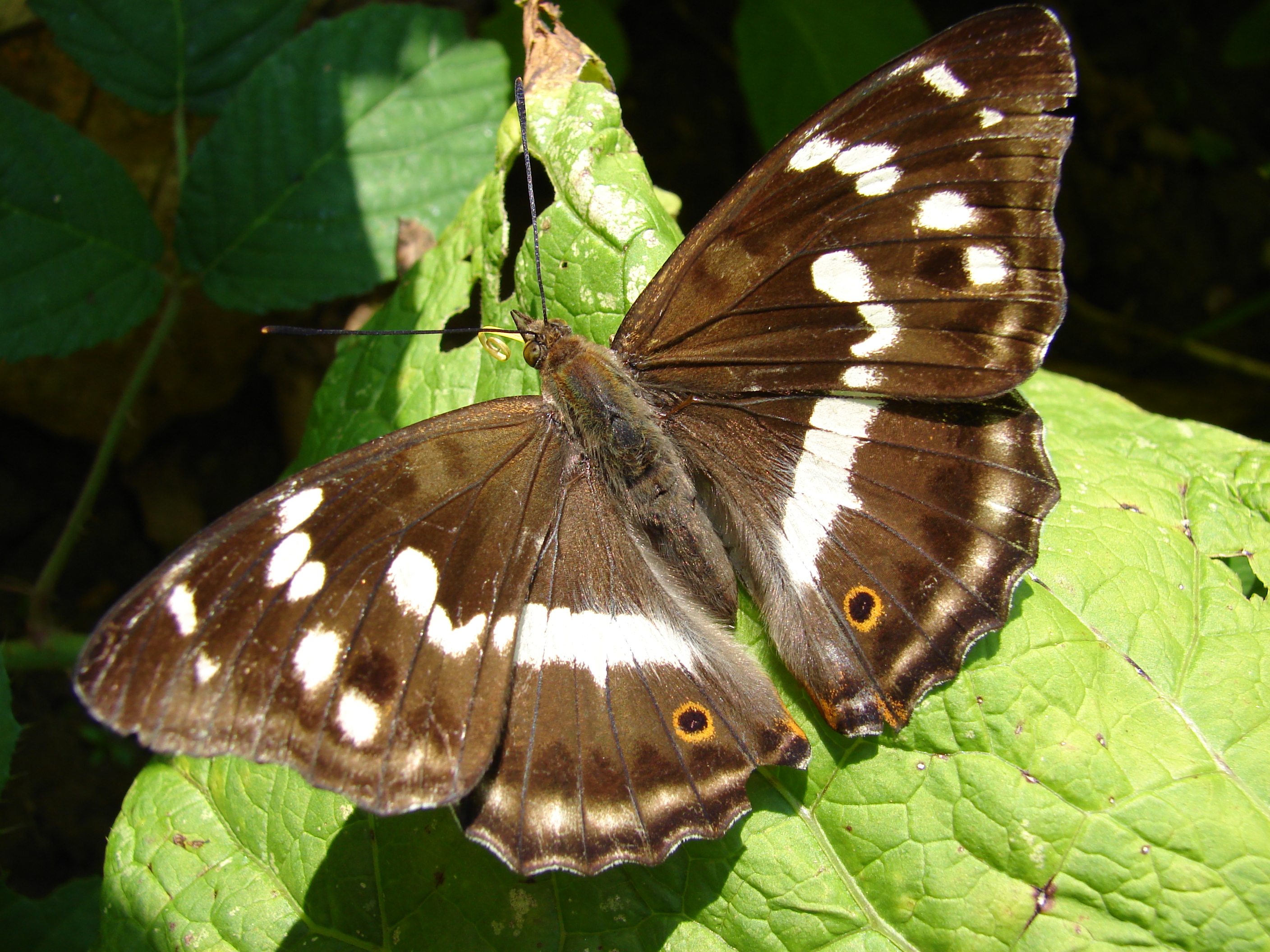 Purple Emperor, female (Apatura iris, Nymphalidae), Location: Șapte Scări canyon near Brașov, Romania